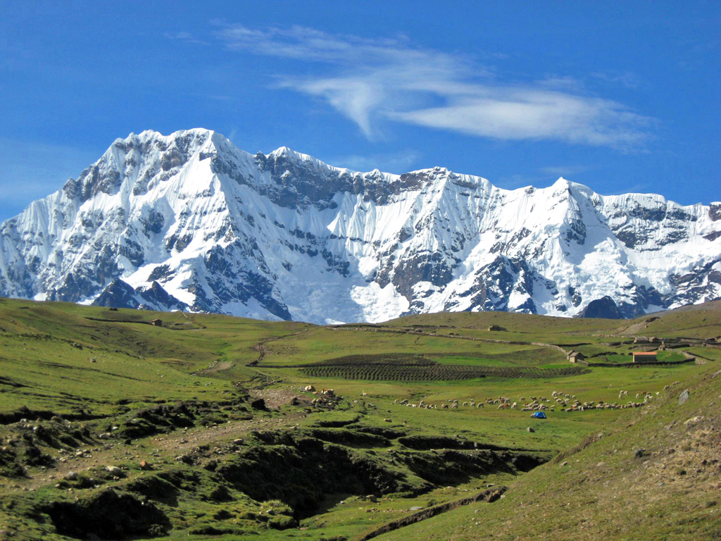 Nevado Ausangate (Cuzco, Peru). The highest mountain in the Cordillera Vilcanota.